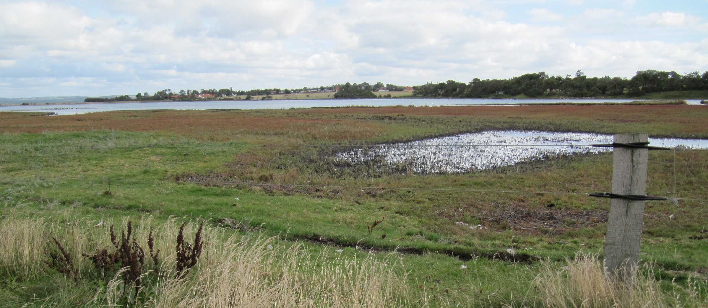 The nature reserve Bøjden Nor in the southwestern part of Funen, DenmarkDansk: Naturreservatet Bøjden Nor i den sydvestlige del af Fyn. Udsigt over strandenge og noret mod nordøst fra strandvolden.